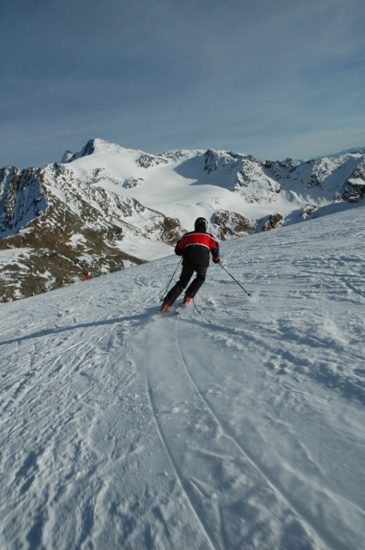 Carving. View from the Gaiskarferner to the Pfaffenferner and Zuckerhütl (3507m), Stubaier Alps Quelle: Skiclub Mitterfels - Lehrgangsfotos Fotograf: Roland Hebertinger